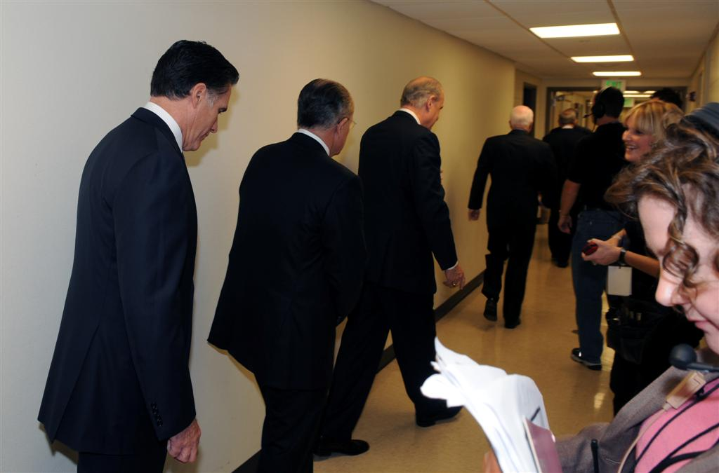 Candidates leave their "green rooms" for the stage...